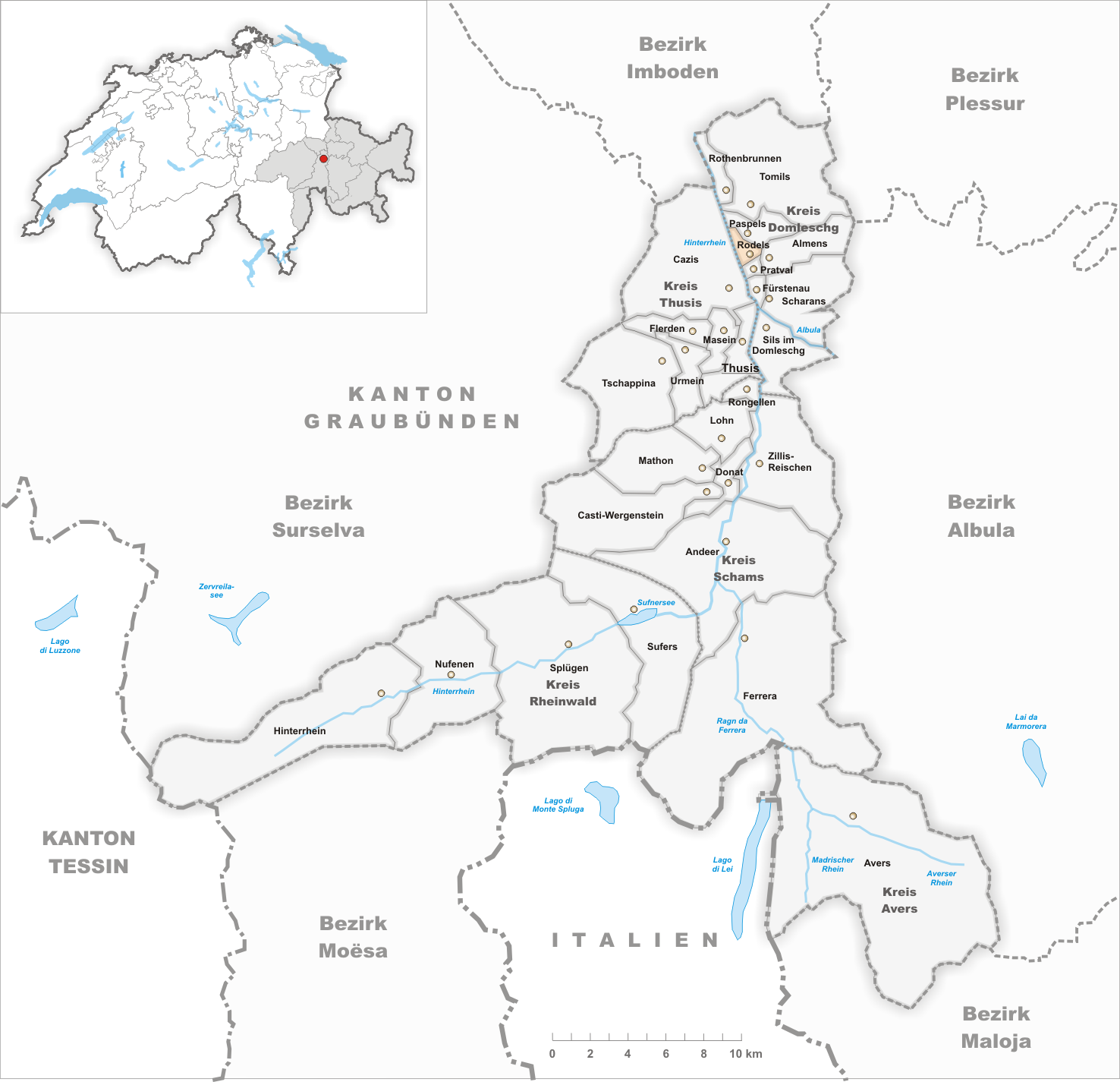 Municipality Rodels